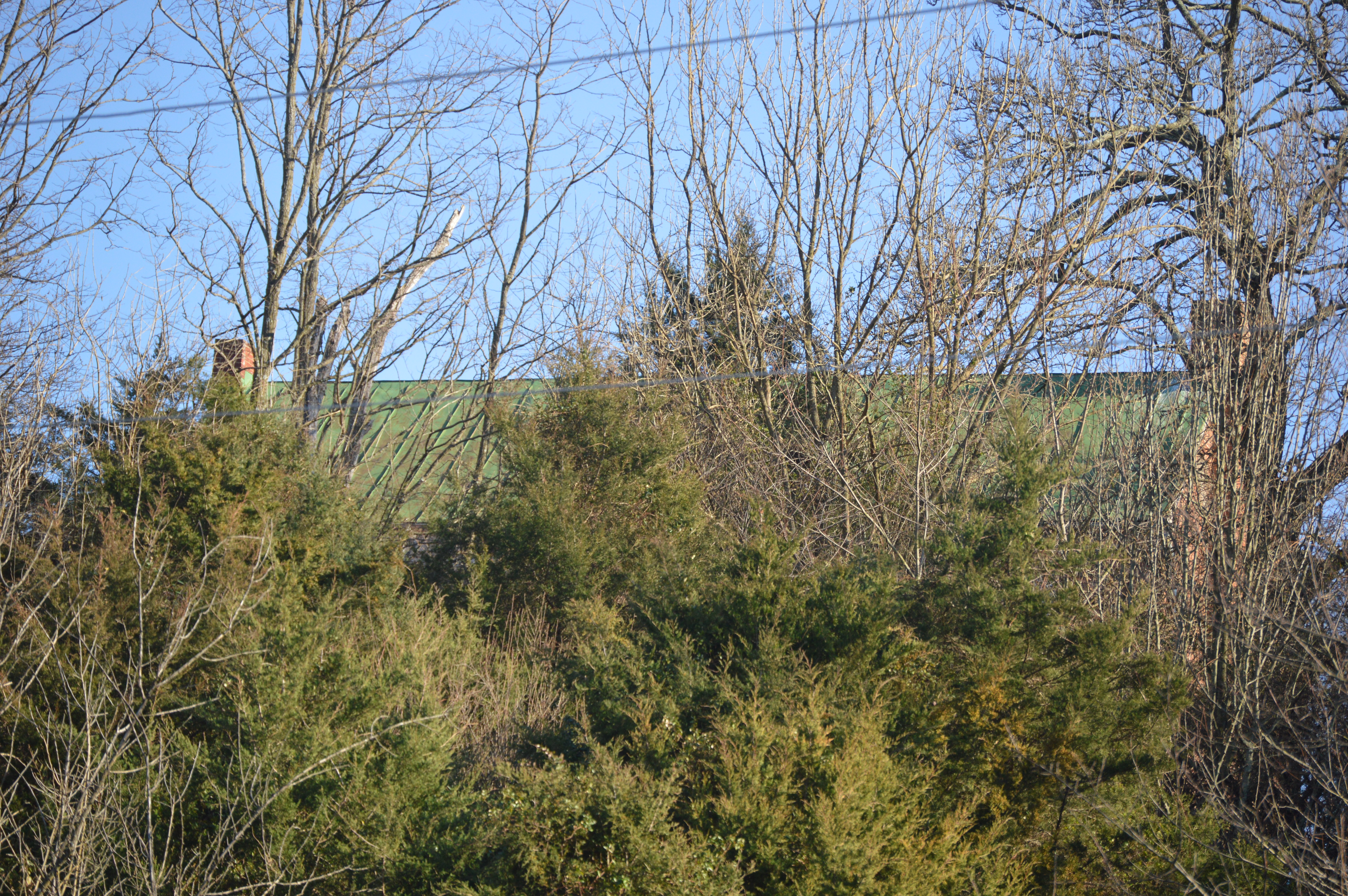 Distant view of Mt. Airy, seen from Technology Drive to the northwest in Verona, Virginia, United States. Built in 1840 and once home to painter Grandma Moses, it is listed on the National Register of Historic Places.